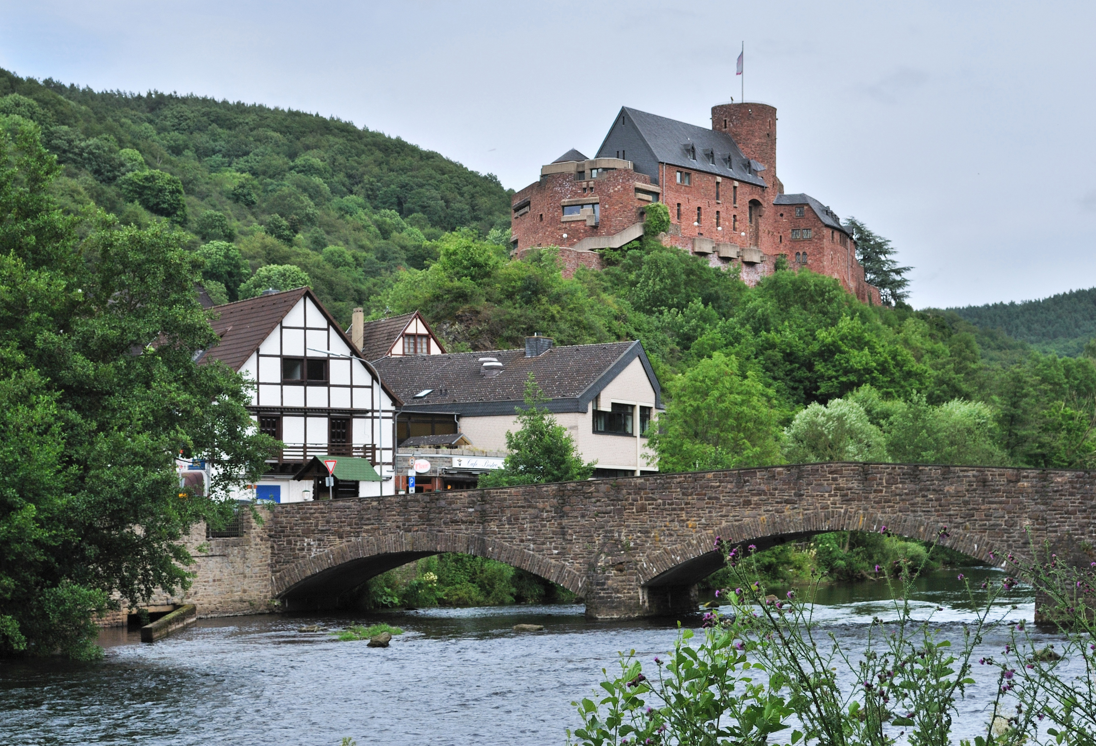 Castle Hengebach in Heimbach in the German Federal State North Rhine-Westphalia. In the front is seen the river Rur with a bridge.